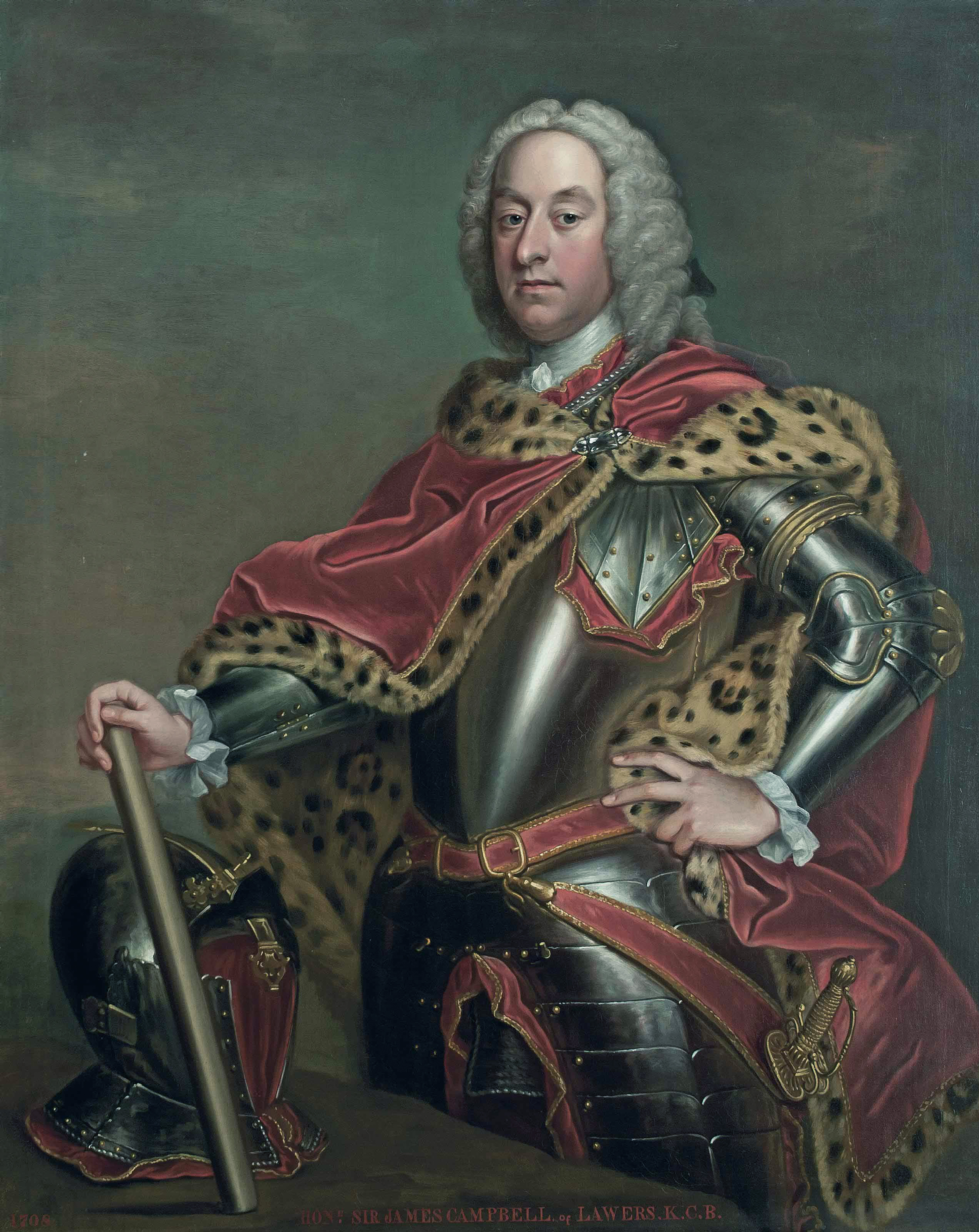 James Campbell of Lawers (1667-1745) oil on canvas 127 x 102.8 cm inscribed b.c.: HONE SIR JAMES CAMPBELL. of LAWERS K.C.B. dated b.l.: 1708